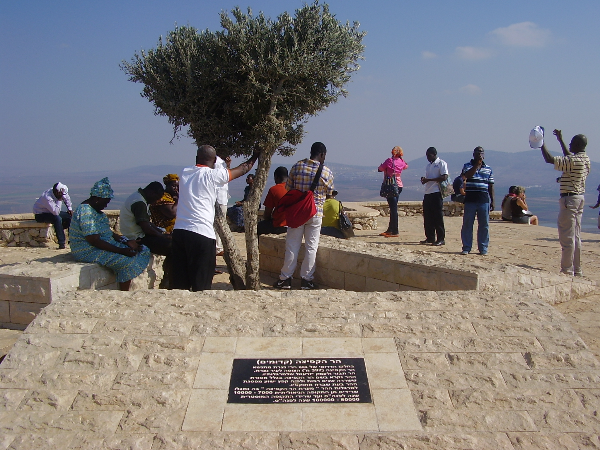 Pilgrims praying on Mount Precipe